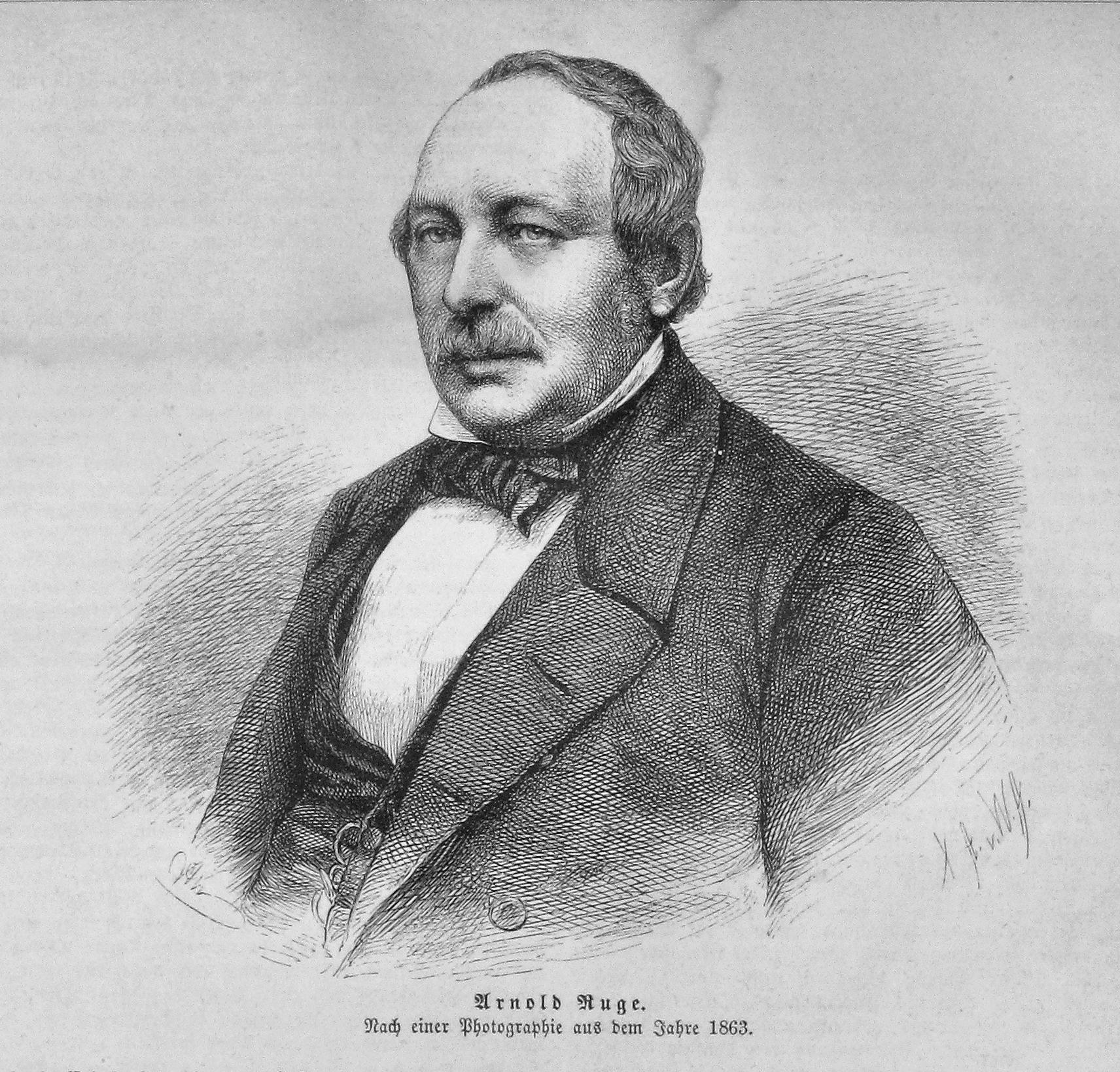 caption: "Arnold Ruge. Nach einer Photographie aus dem Jahre 1863."